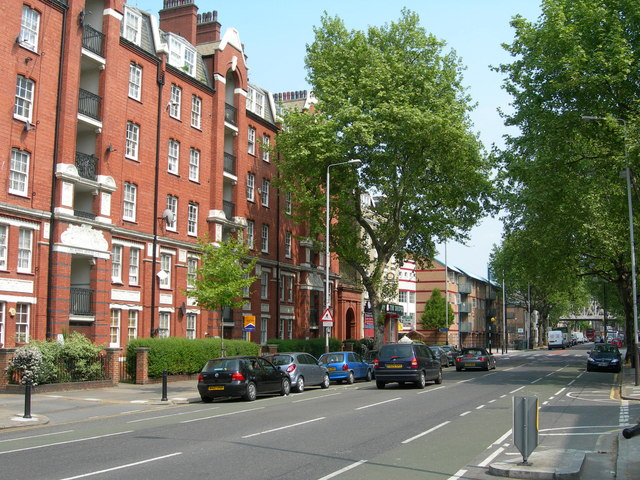 Borough Road, SE1 Looking away from St George's Circus towards Borough.